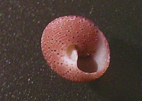 Clanculus simoni Poppe, Tagaro & Dekker, 2006 , a top snail from the family Trochidae; Philippines